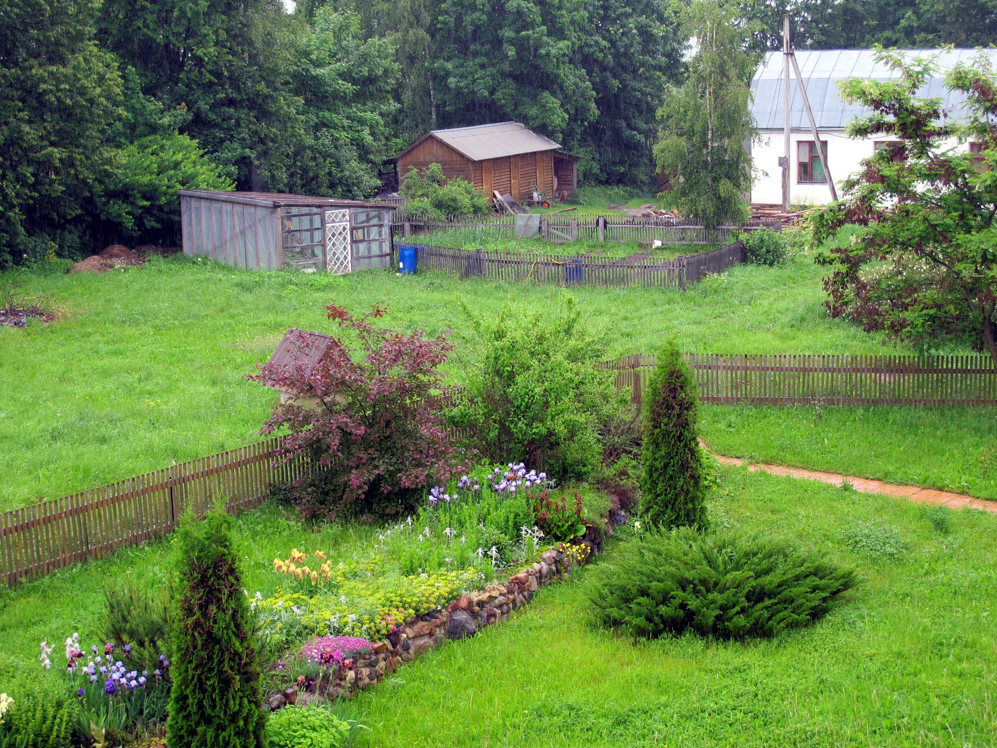 Borodino village from Borodino church (2012-06-10).